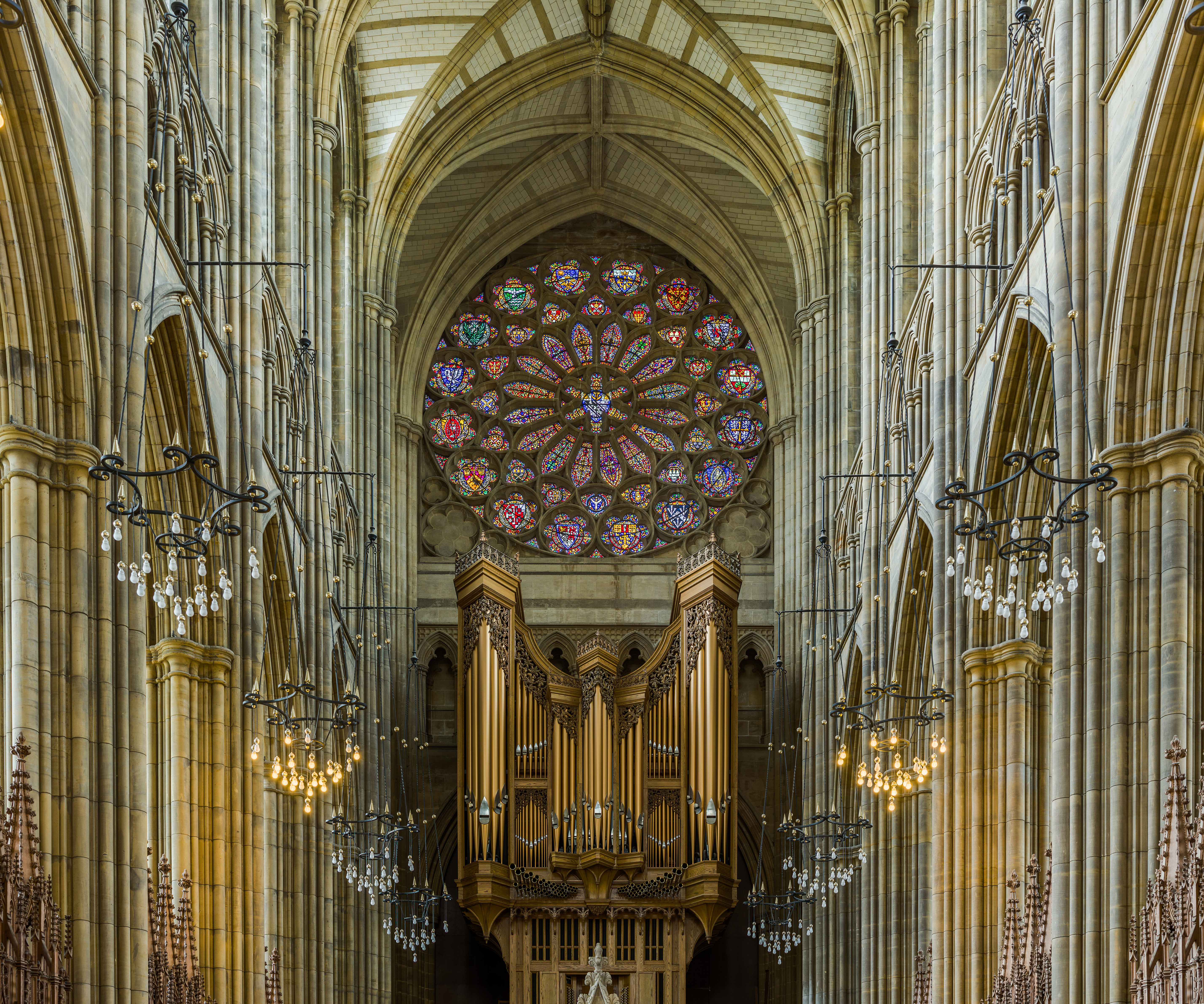 The organ and stained glass of Lancing College Chapel facing west in West Sussex, England.